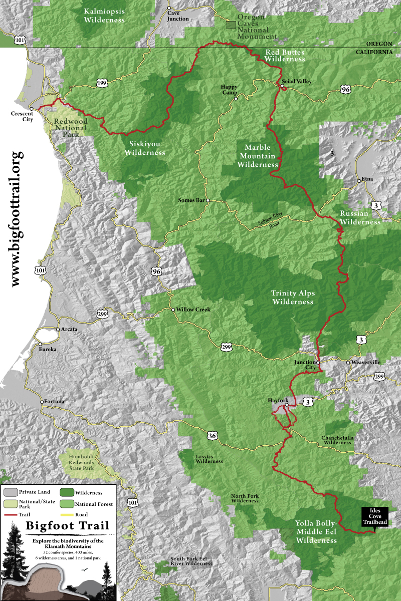 The proposed route to see 32 conifers of the Klamath Mountain Region along the Bigfoot Trail